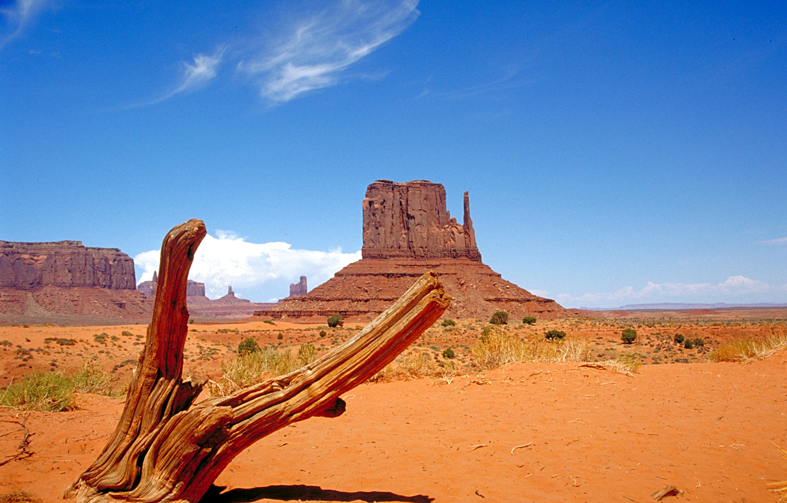 West Mitten Butte Monument Valley, view northeastward from Arizona to Utah, USA.